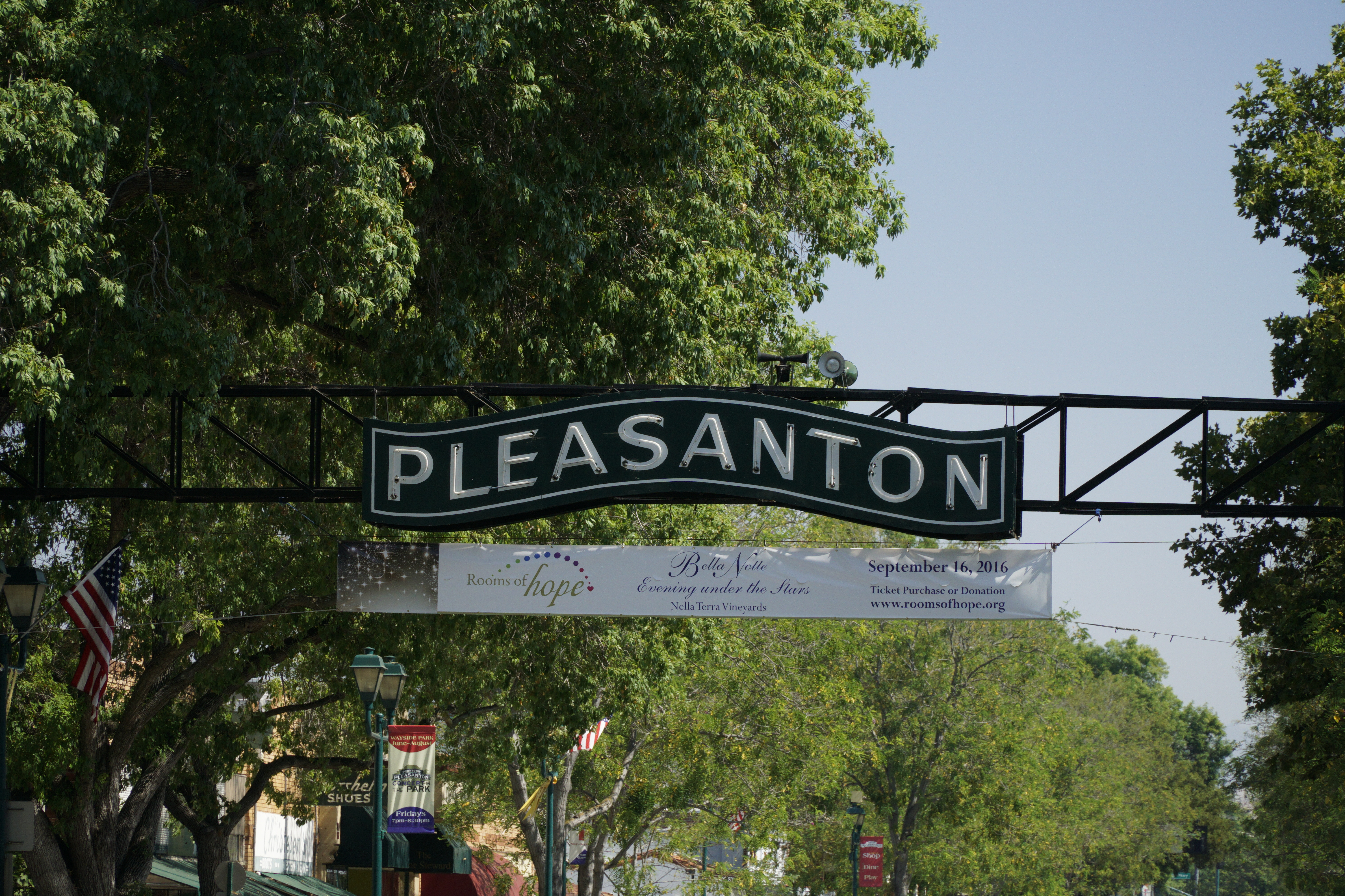 Sign appearing on the Main Street of Pleasanton downtown.